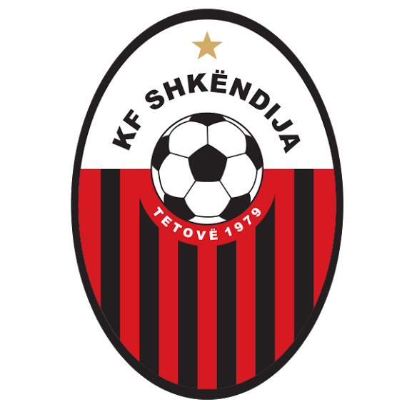 This the official logo of KF Shkëndija